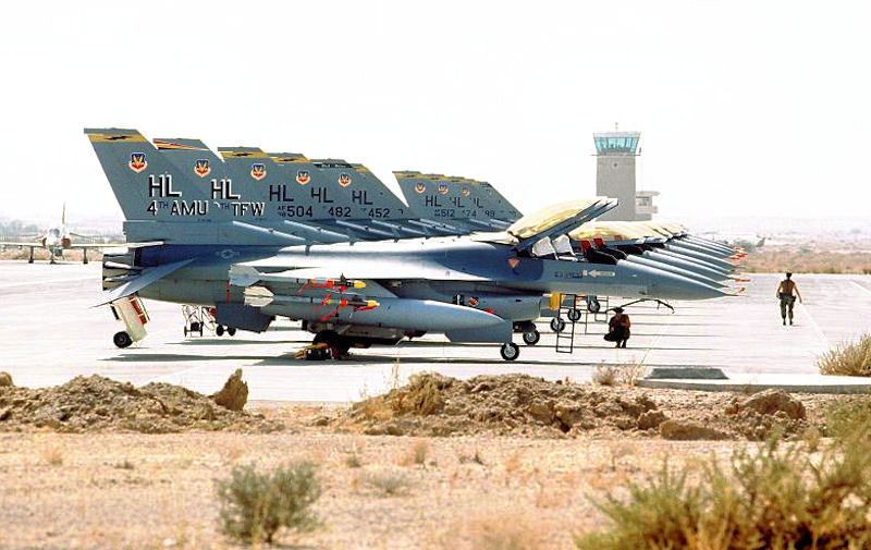 F-16Cs of the 388th TFW line an airfield during Operation Desert Shield on January 23rd, 1991. [USAF photo by TSgt. Marvin Lynchard]